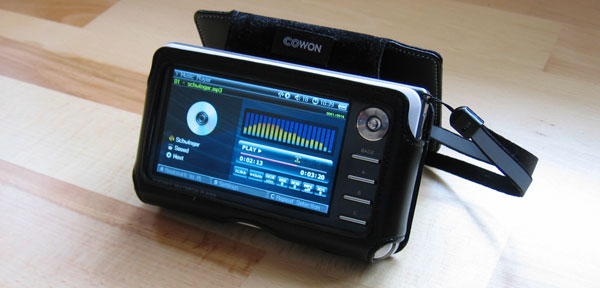 Summary Cowon A2 with included carrying case, which also acts as a stand.